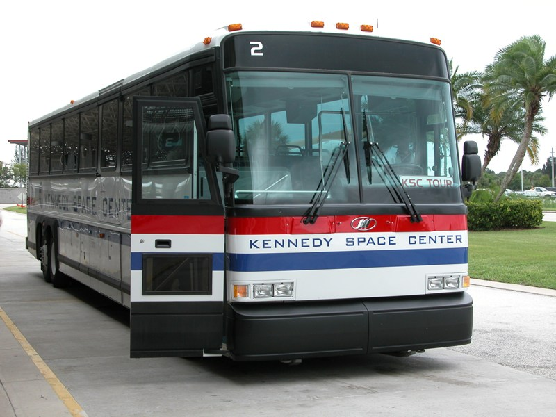 NASA Kennedy Space Center tour bus